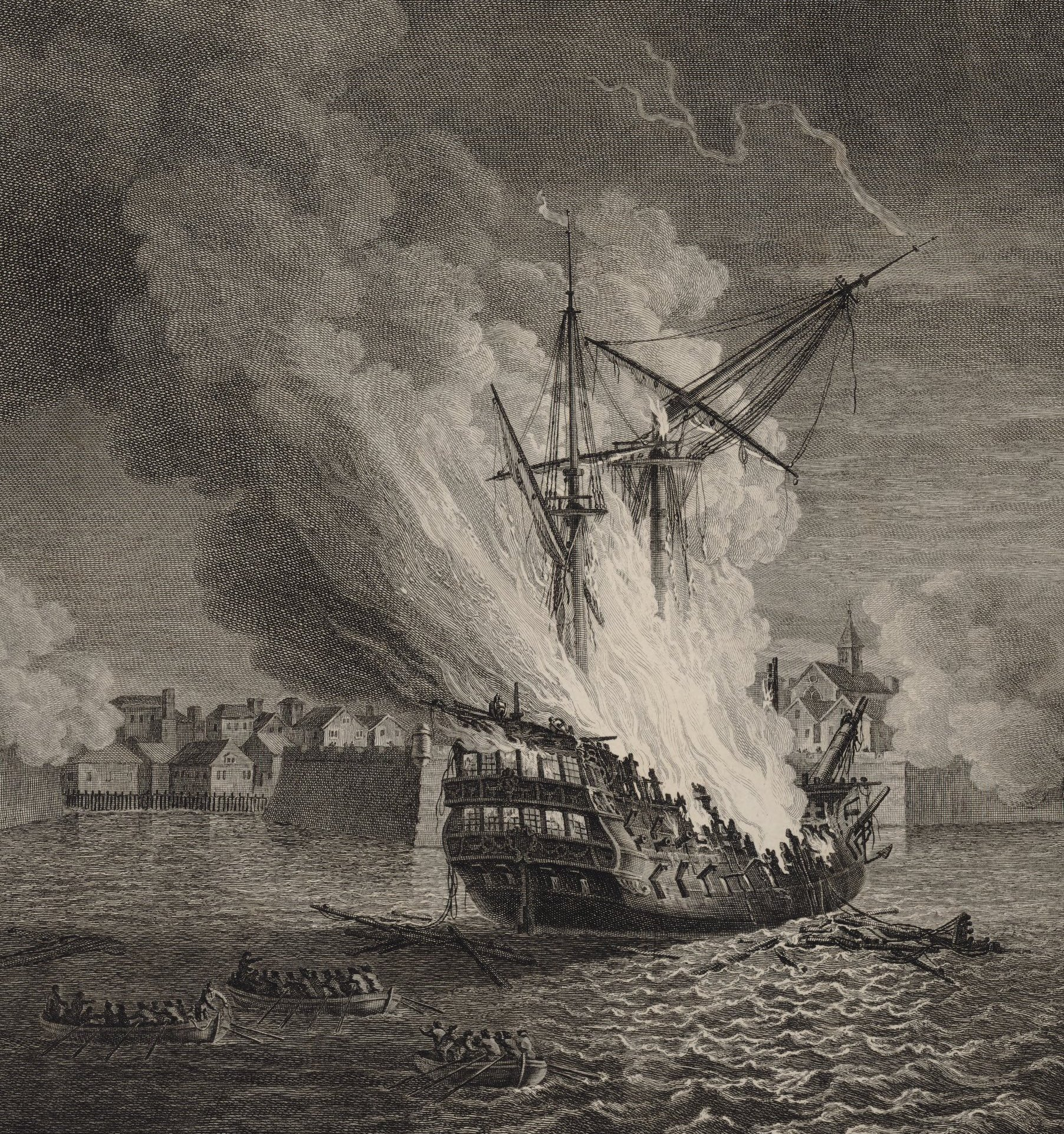 Engraving made ​​after a painting by Richard Paton. Burning of the French ship Prudent (74 guns), during the siege of Louisbourg in 1758.